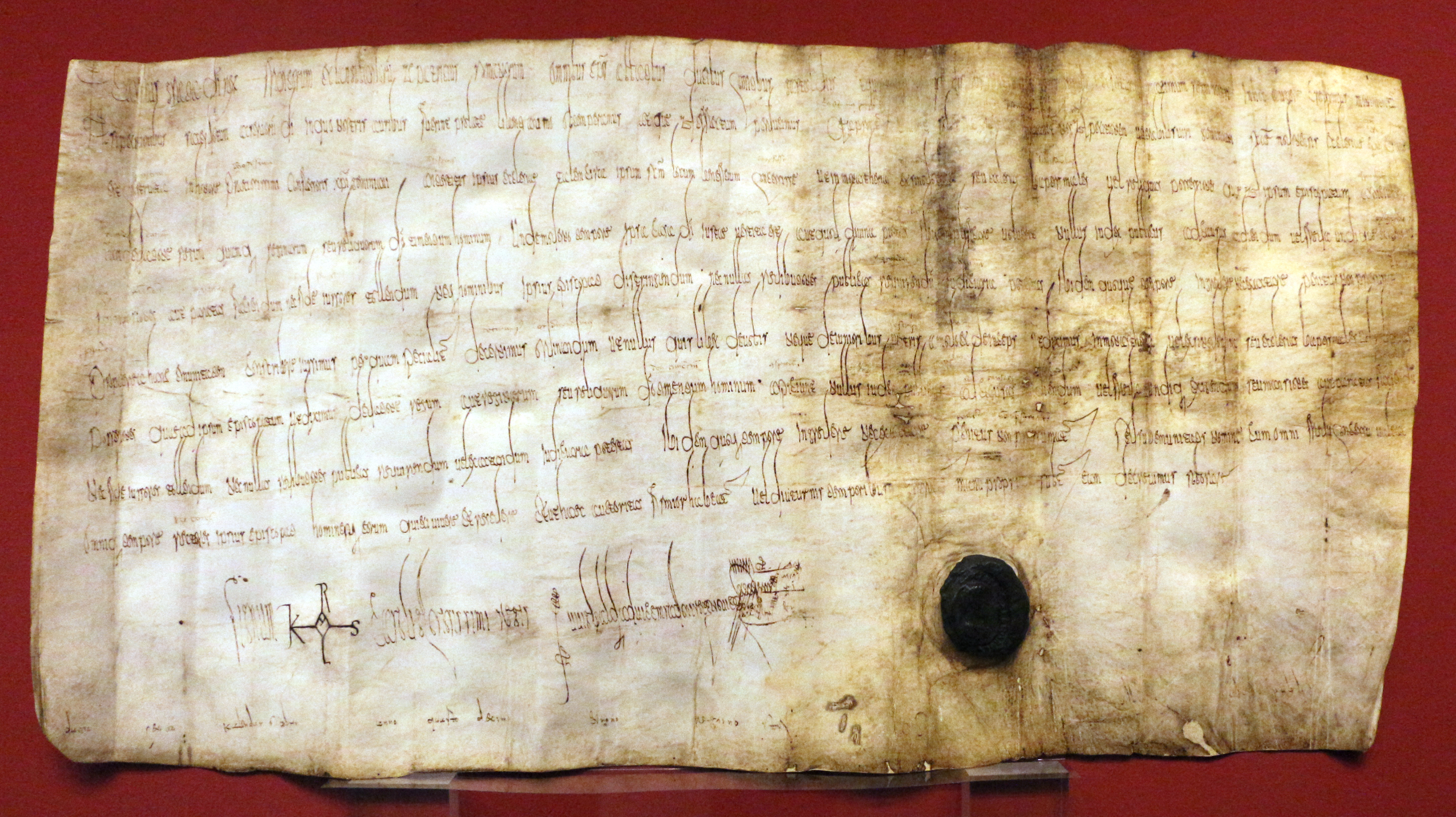 Museo della Cattedrale (Modena)